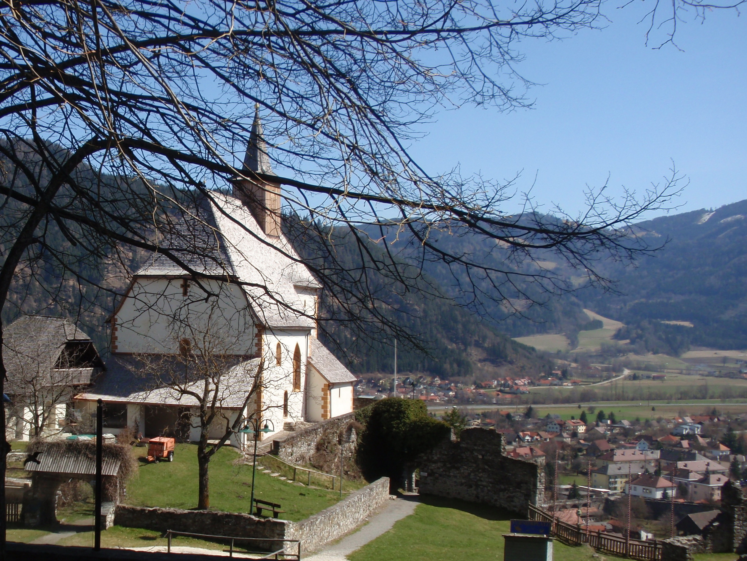 Peter's Church next to Petersberg Castle. Friesach